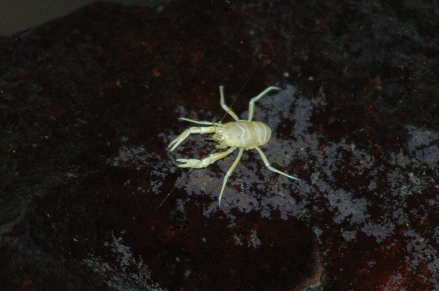 Munidopsis polymorpha